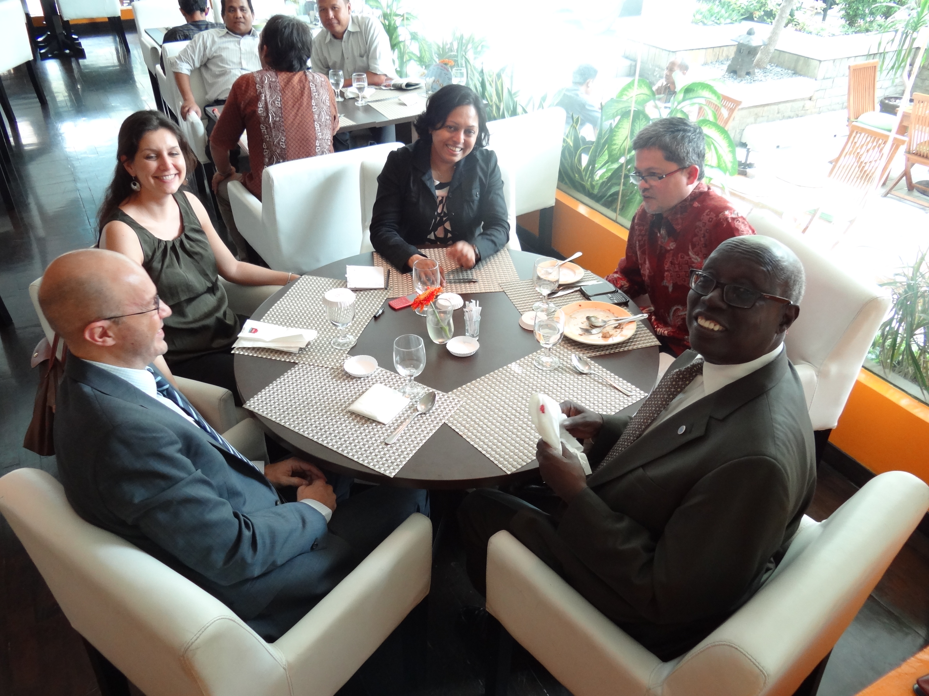 Representatives of UN Office of the Special Adviser on the Prevention of Genocide - With Former Special Adviser Dr. Francis Deng at Right - Jakarta - Indonesia